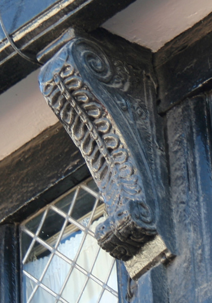 Carved wooden corbel on Crown Inn, Nantwich, Cheshire